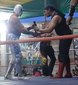 Mexican professional wrestlers Judas el Traidor and Axel El Heredero de Plata in 2018.